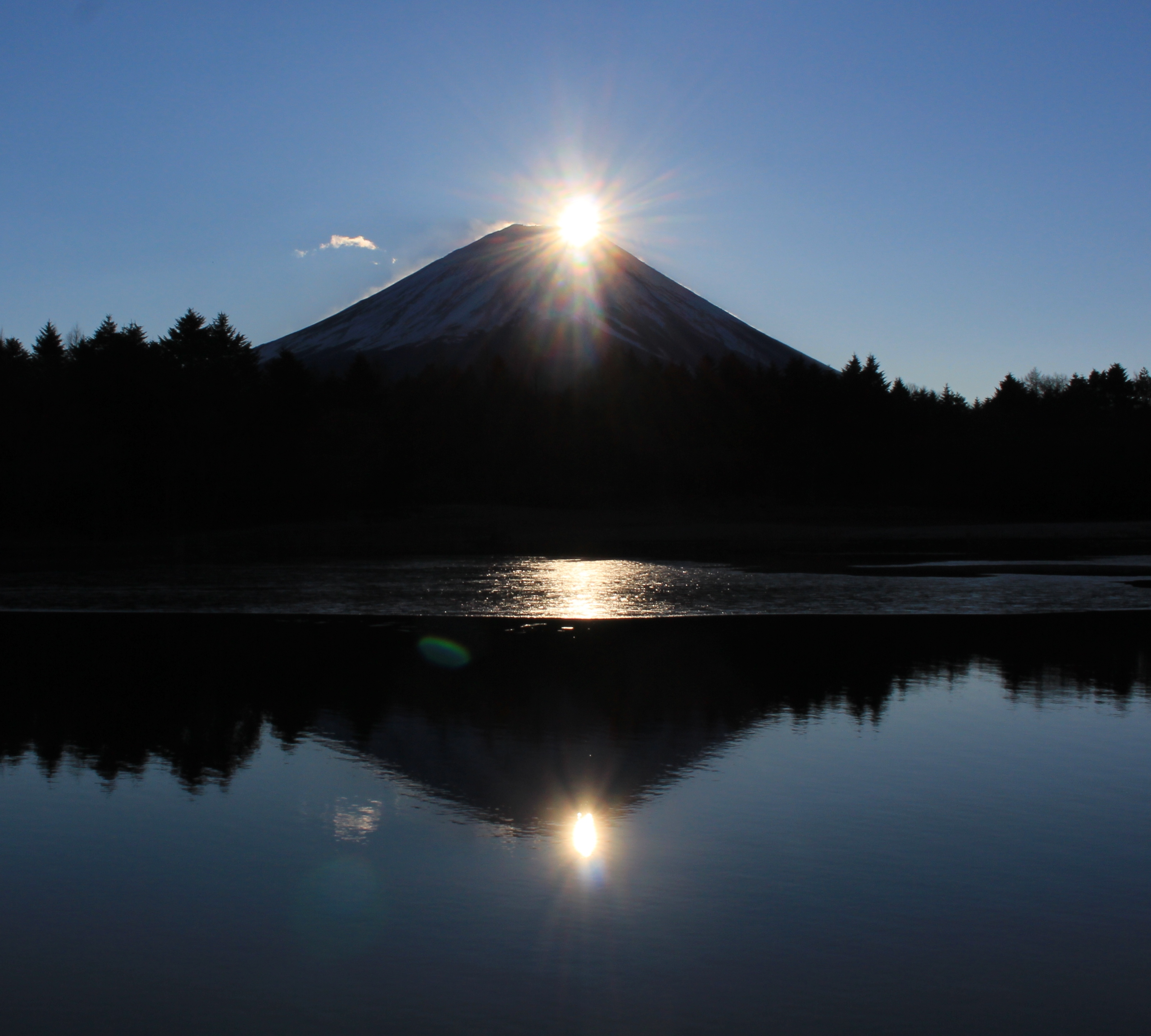 Double Diamond Fuji (Diamond Fuji and Water reflections of Mount Fuji), in Fujikawaguchiko, Yamanashi prefecture, Japan.